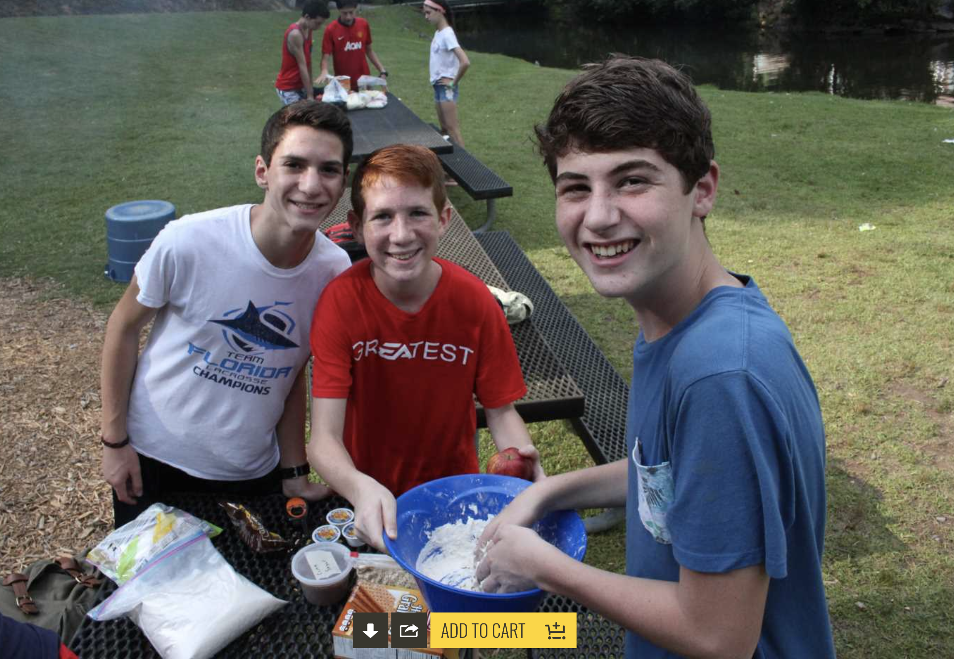 Campers Josh Vlessing, Avery Isan, and Ari Weiss having fun while preparing dough to cook over the campfire.